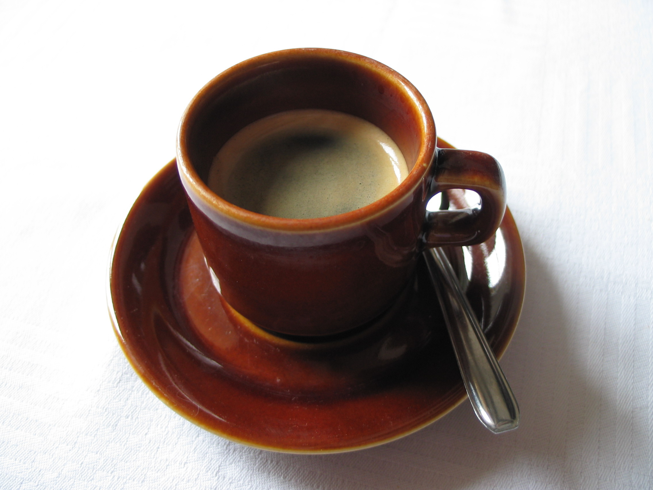 Brown cup of coffee.